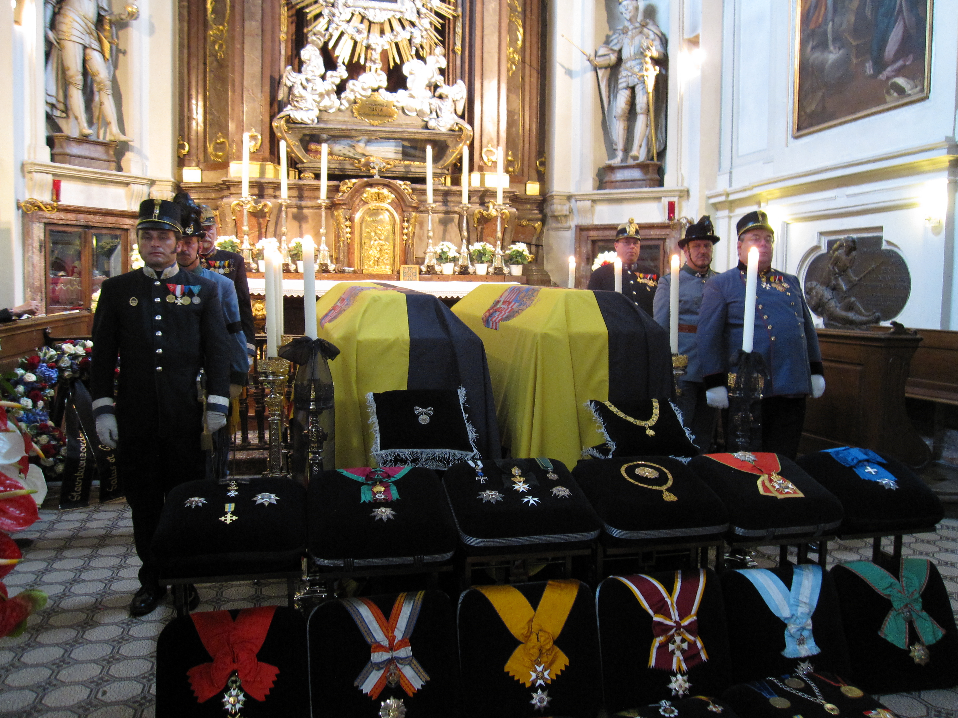 Lying in repose of Otto von Habsburg, heir to the Austrian and Hungarian thrones, and his wife Princess Regina of Saxe-Meiningen, at the Capuchin Church in Vienna on Friday, 15 July 2011.